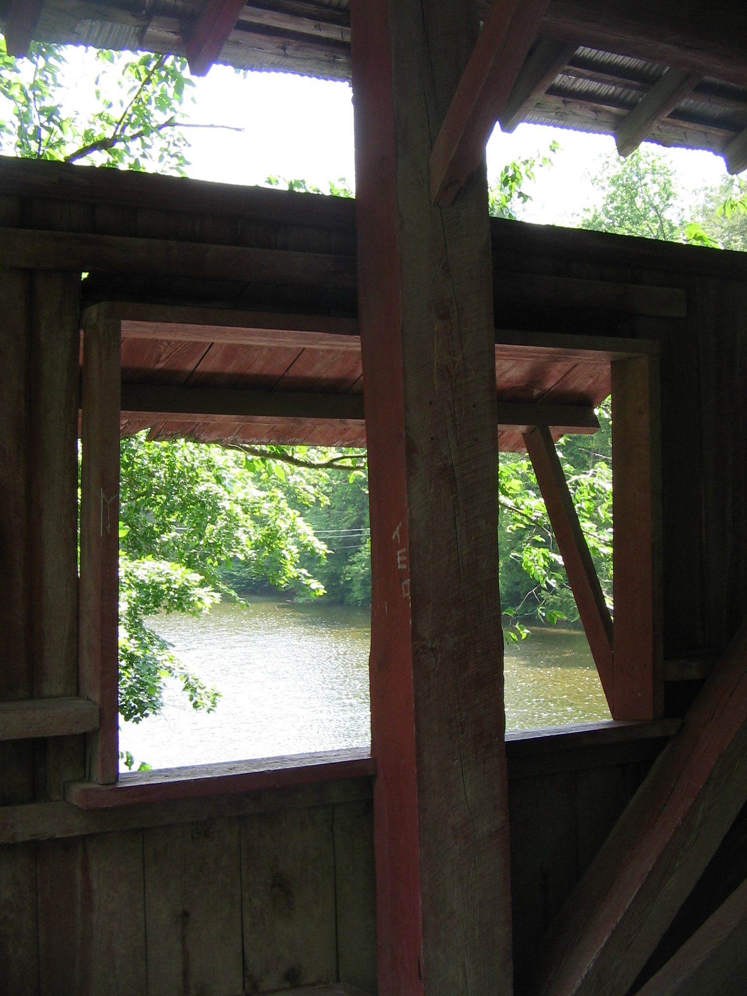 View out the easternmost south window of Hillsgrove Covered Bridge to Loyalsock Creek in Hillsgrove Township, Sullivan County, Pennsylvania in the United States. Note opening below eaves, above, too.